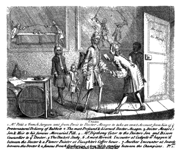 St. André receives a French surgeon sent to investigate the rabbit business, published in 1726.